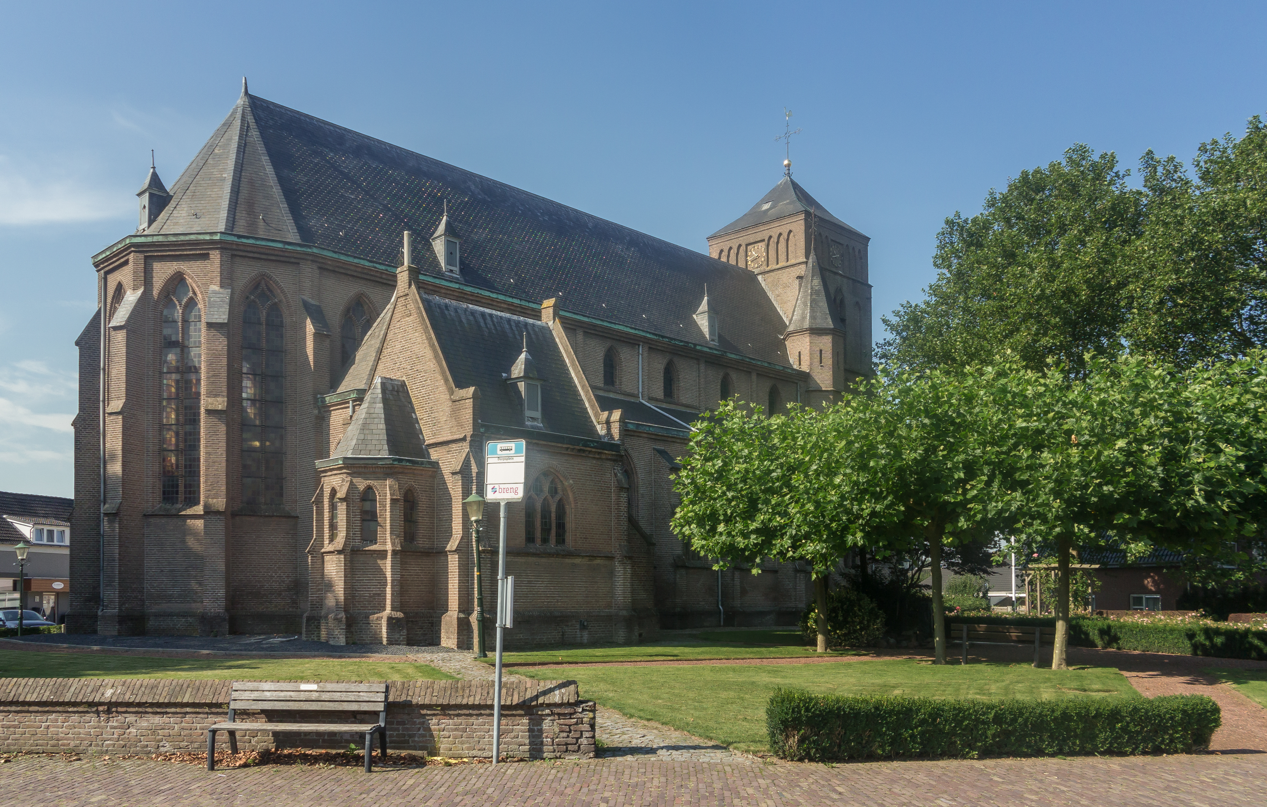 Pannerden, catholic church: de Sint Martinuskerk